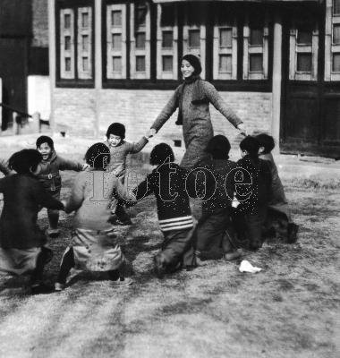 A chinese female university students with a group of primary school kids